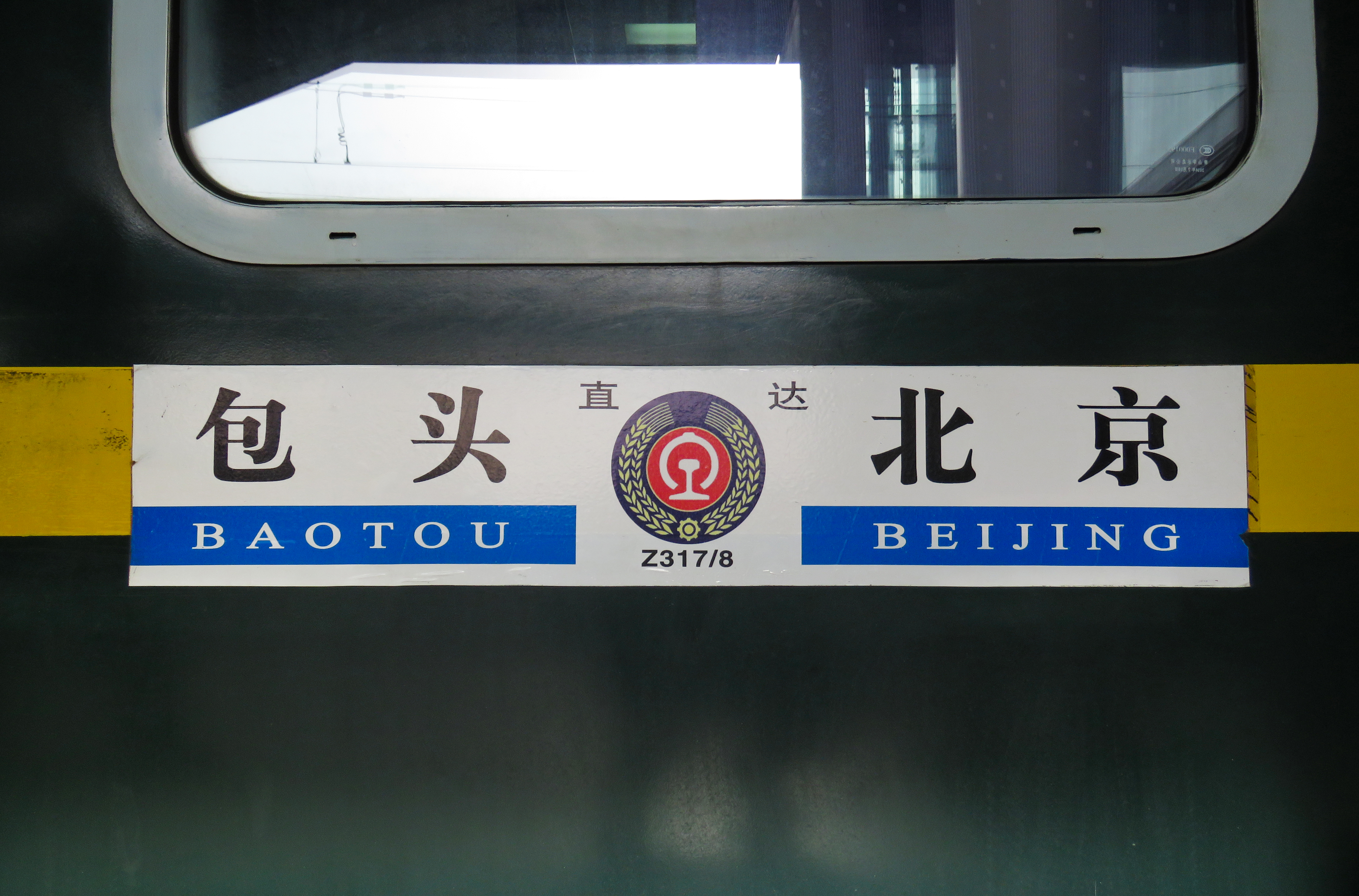 Another premium train run by CR Hohhot.